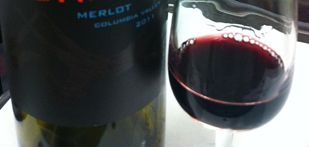 Cropped version of own work Columbia valley merlot.jpg to remove winery name